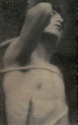 F. Holland Day, Saint Sebastian (1906).